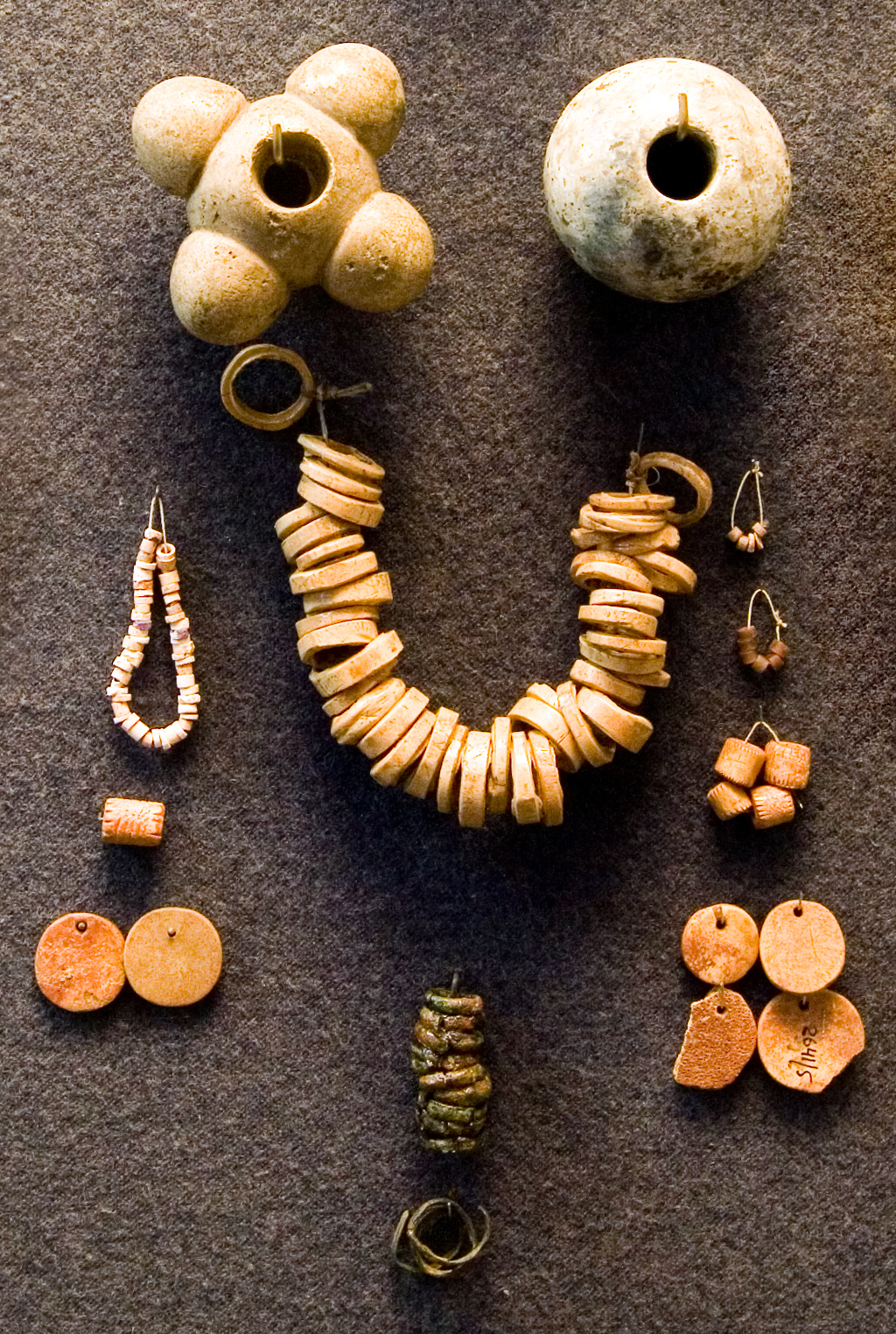 Objects found during excavations